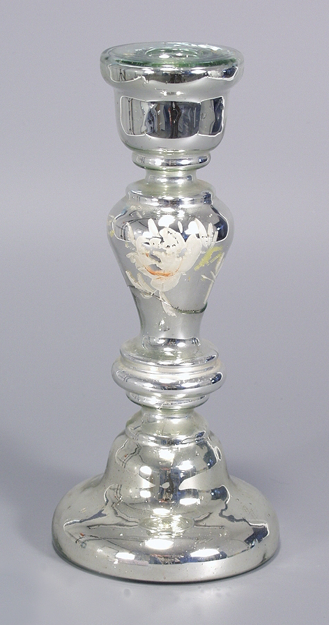 Mercury glass candlestick.